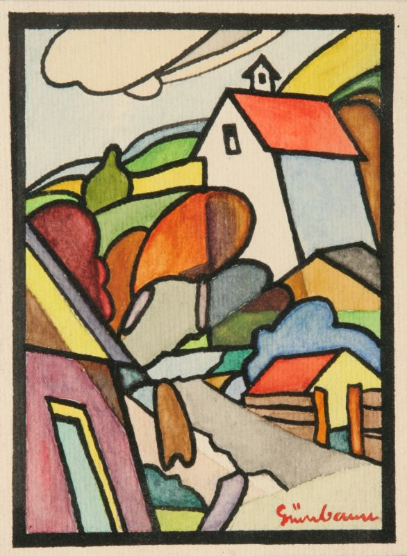 Painted by Ernő Grünbaum